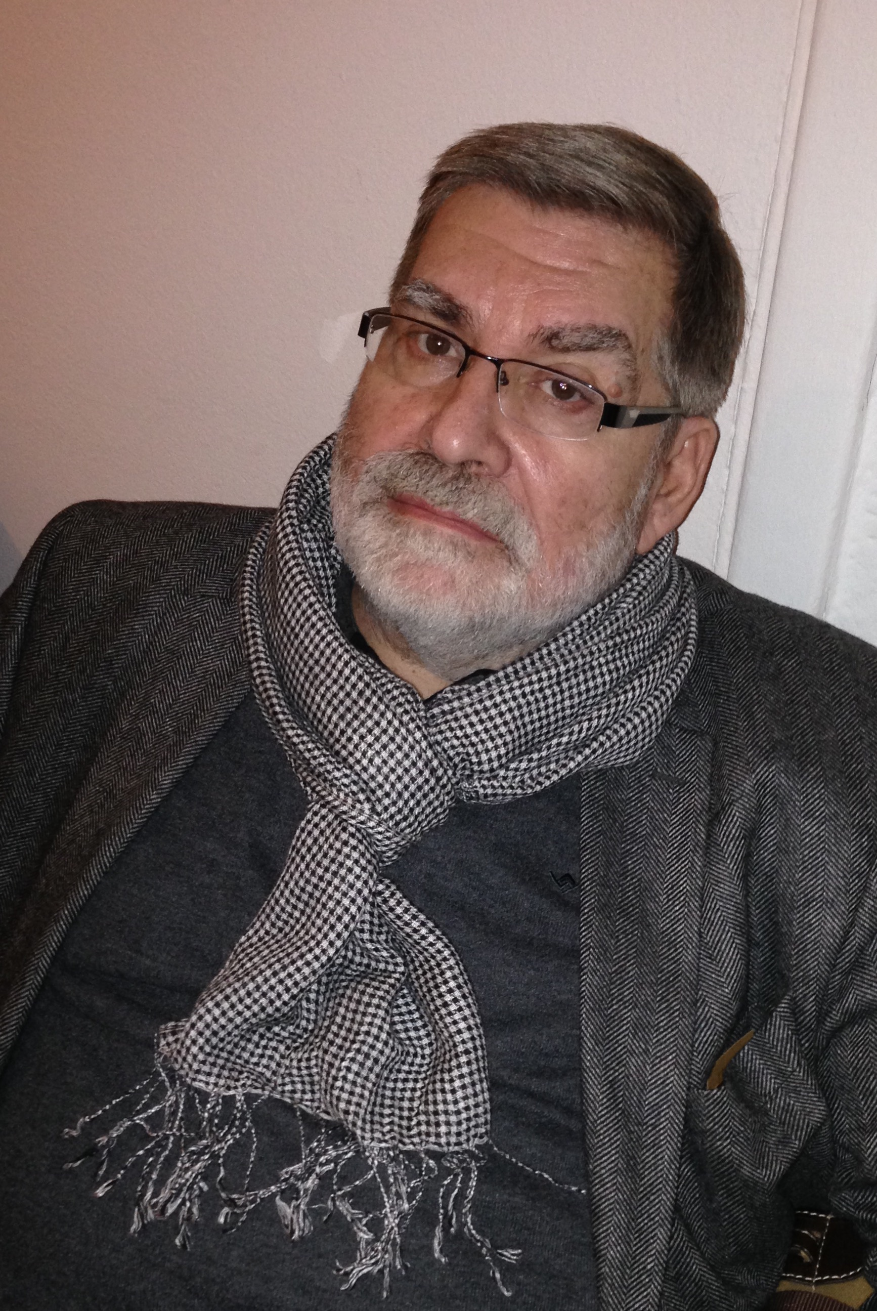 M.V.Gorbanevsky. 2015 GLADIS.